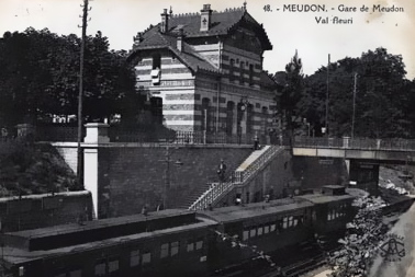 Scan of an old postcard of Gare de Meudon Val Fleury Fin XIXe siècle ou début XXe